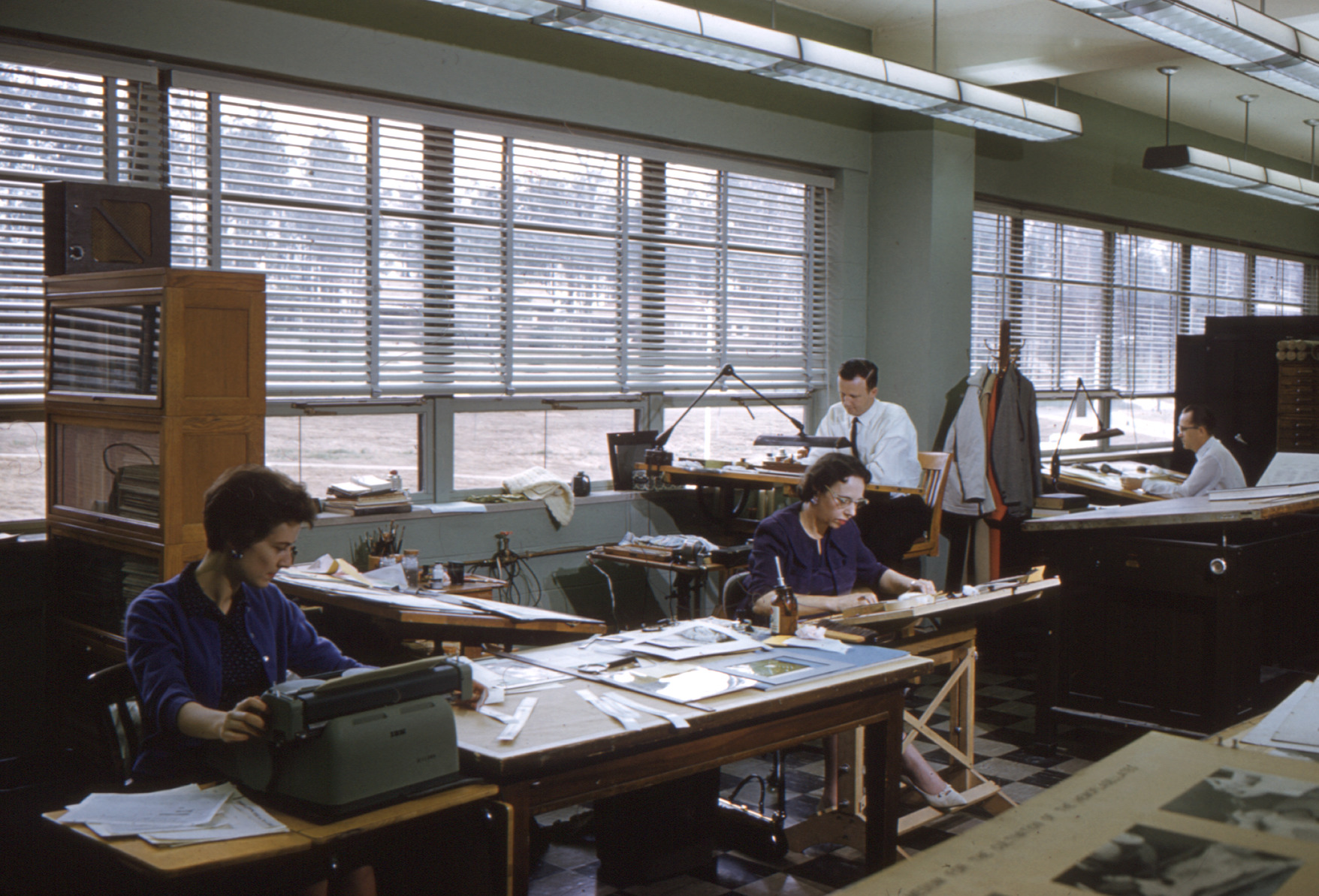 PHIL ID#: 4285 Description: This 1961 photograph shows a number of CDC personnel at work in the Graphic Arts Office. Graphic designers or medical illustrators are often called upon to create visual aids to accompany television broadcasts, slide presentations, and textual documents that promote CDC’s mission to promote public health awareness.